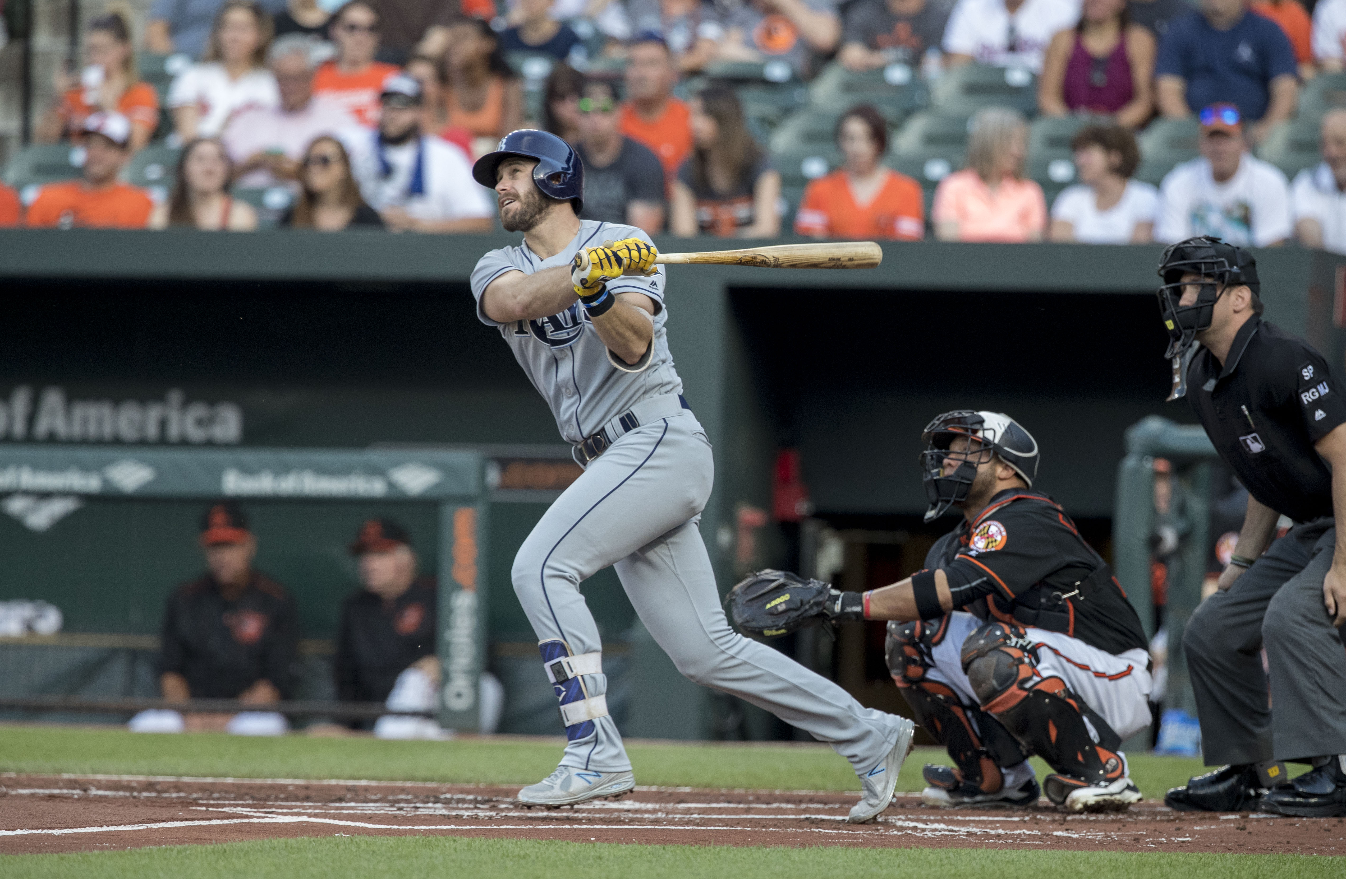 Rays at Orioles 6/30/17